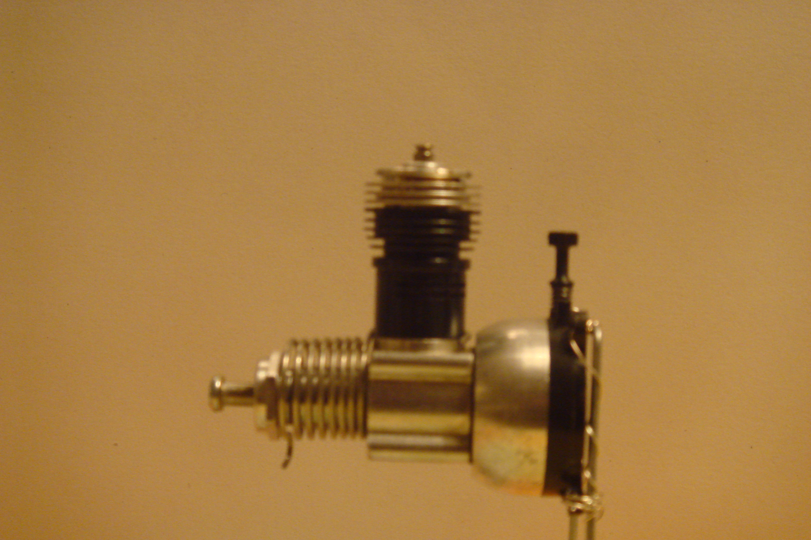 A cox Babe Bee .049 (0.8 cm³) engine, owned by Ideeman1994 ERRATUM: the name is wrong, it's not a Pee Wee, sorry :)